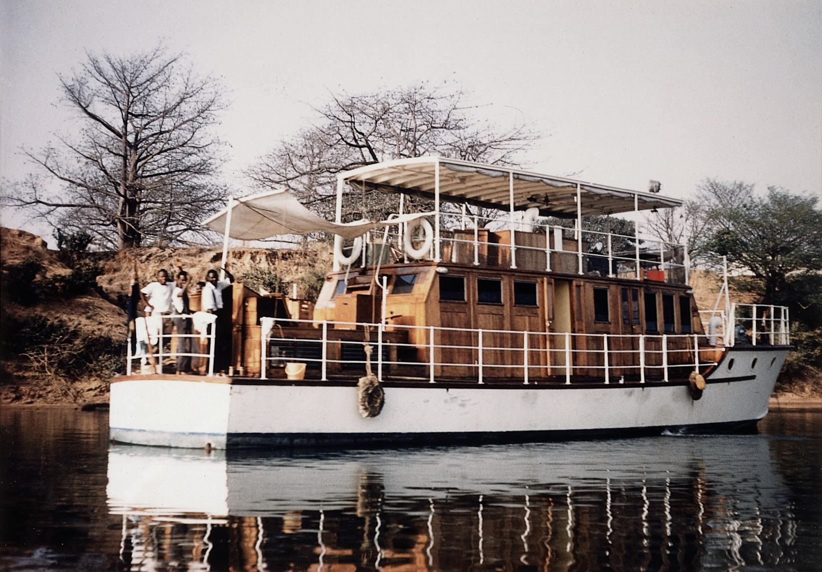 Wellcome material: The laboratory ship the "Lady Dale". Presented to the Medical Research Laboratories, Gambia, in 1958. Wellcome Images Keywords: BARGE; the lady dale; WELLCOME EPHEMERA; wellcome research laboratories; Gambia